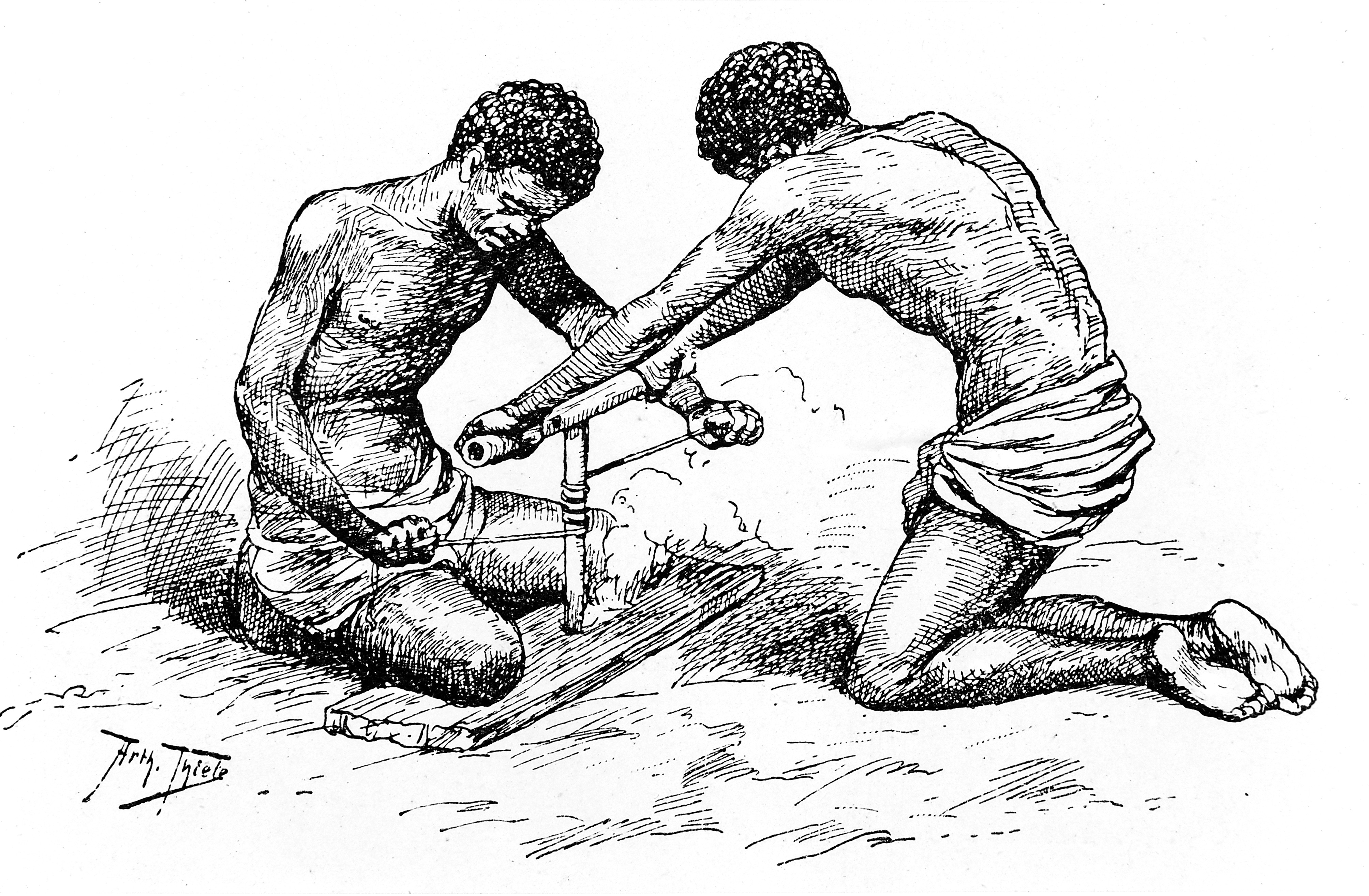 Illustration of fire-drilling, string drill in West Madagascar Wellcome Images Keywords: primitive knowledge; native medicine; Frobenius; Ethnography